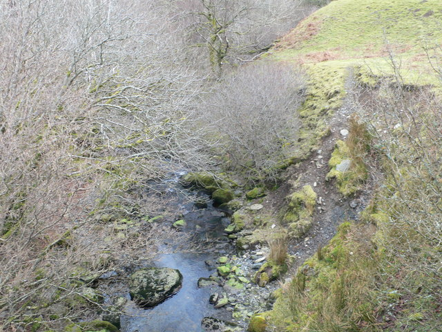 Afon Eidda The river Eidda at Pont Blaen Eidda.